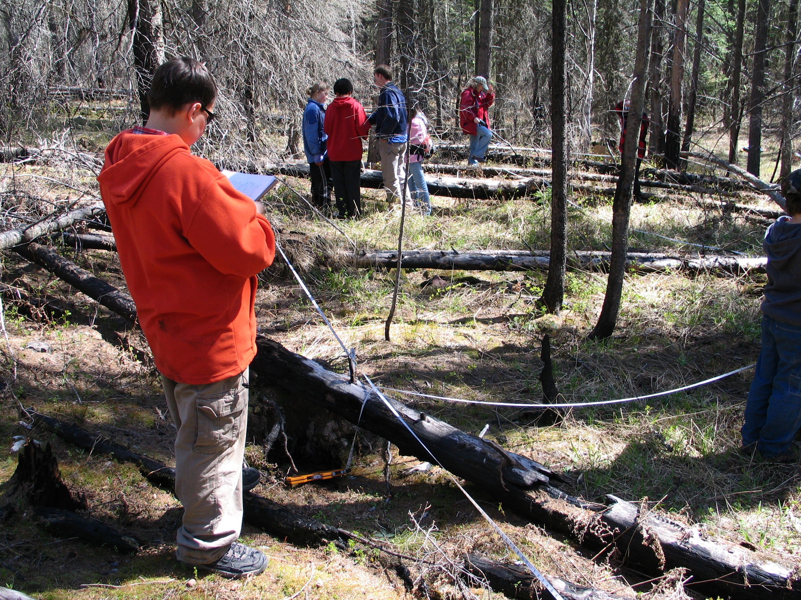 Students help the park Fire Ecologist survey the effects of fire in Glacier. Photo: Laura Law, NPS